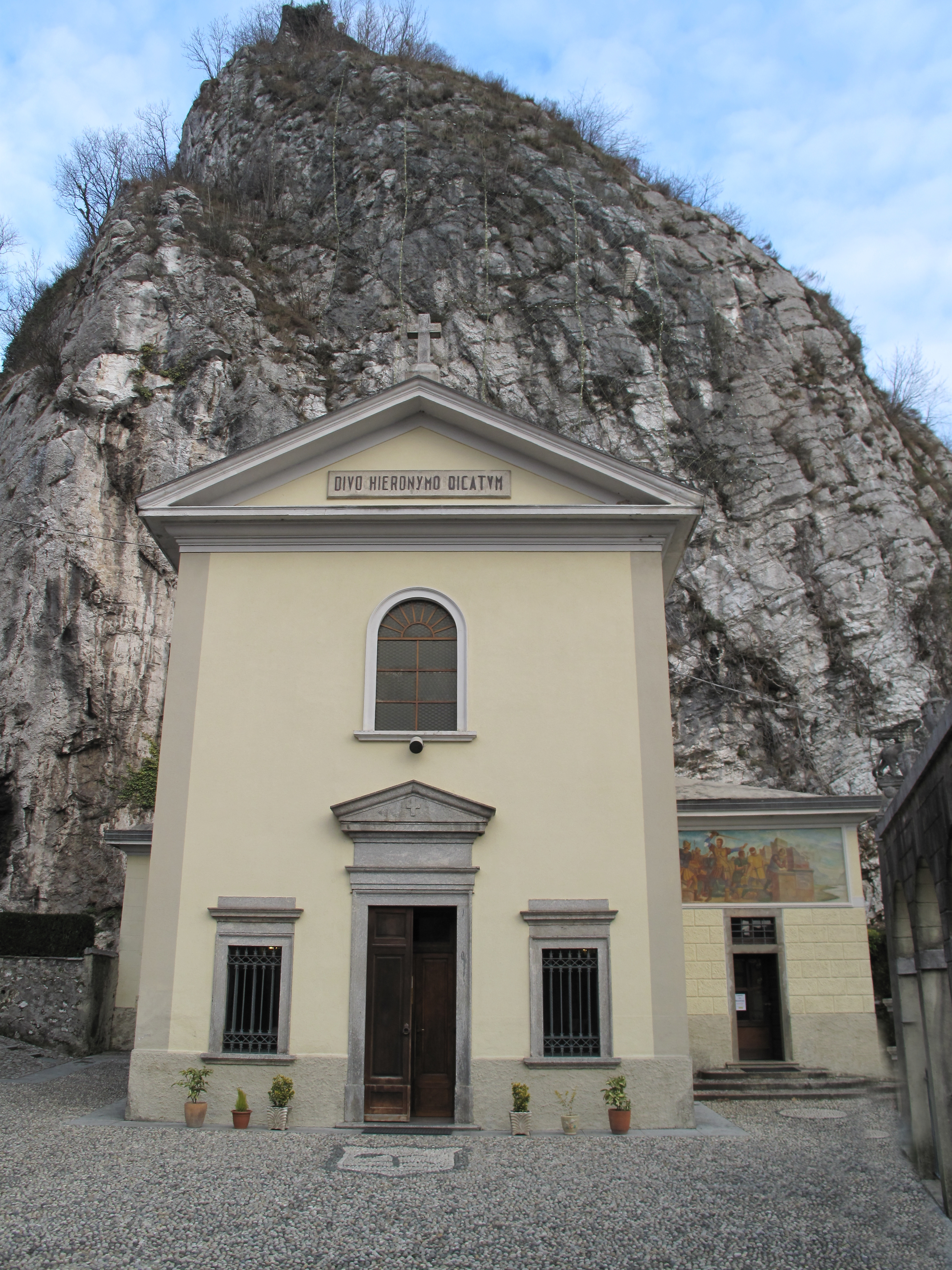 Chapel of Saint Girolamo Emiliani in Somasca di Vercurago (LC) Italy